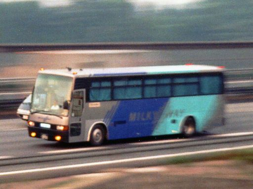 Tokyu Bus "Milky Way" Mitsubishi P-MS725SA改 at Tomei Expway